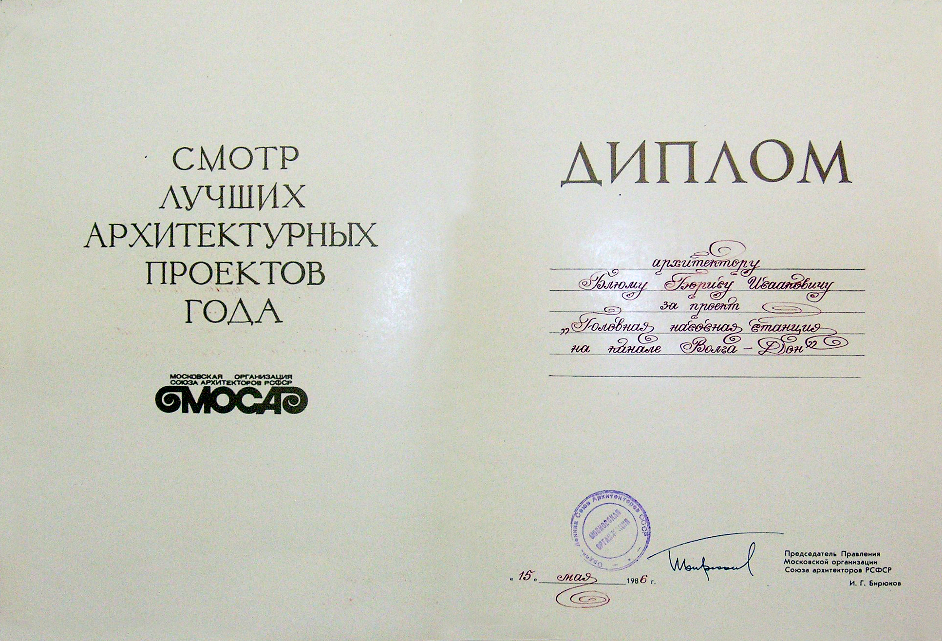 Certificate 1986